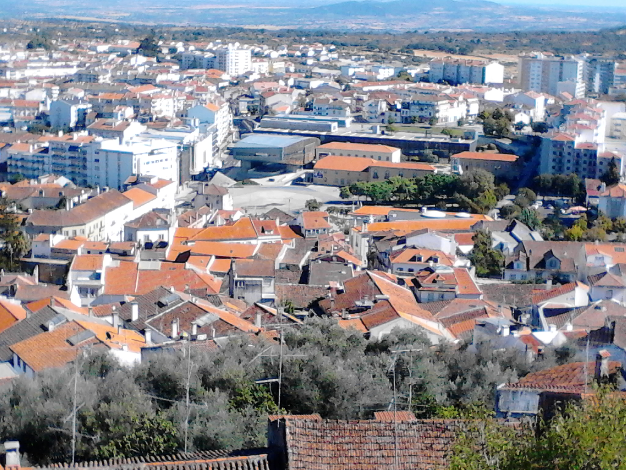 Biblioteca Municipal, Centro de Cultura Contemporânea de Castelo Branco and Army building from the Castle